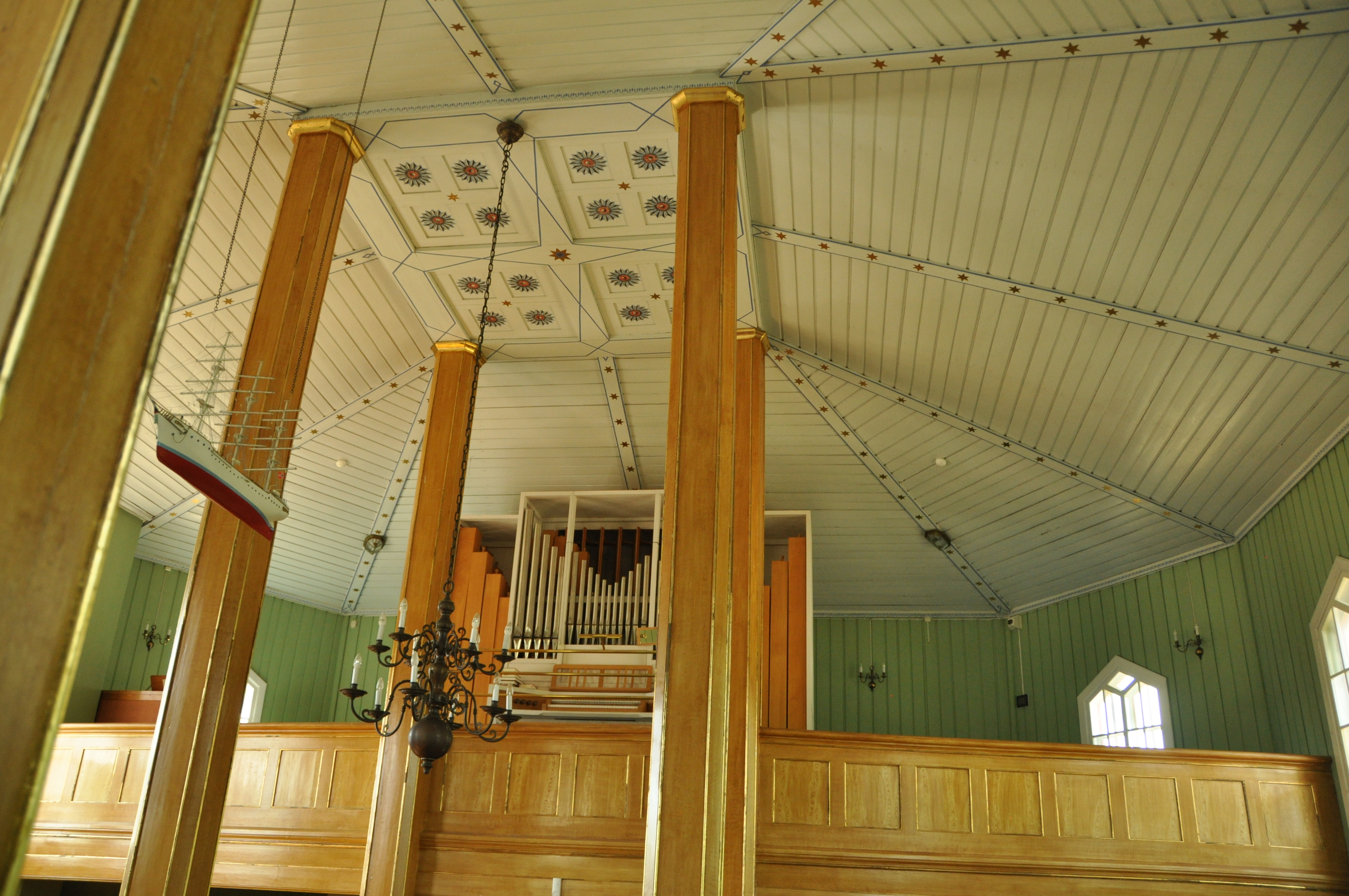 Nes Church interior, columns and gallery